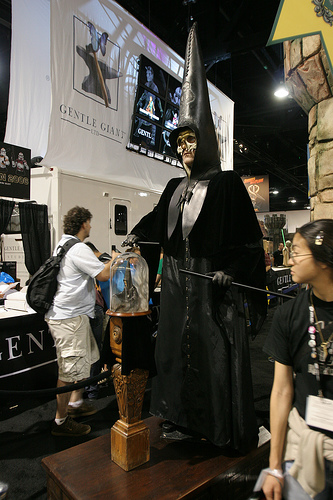 A picture of a Death Eater Costume